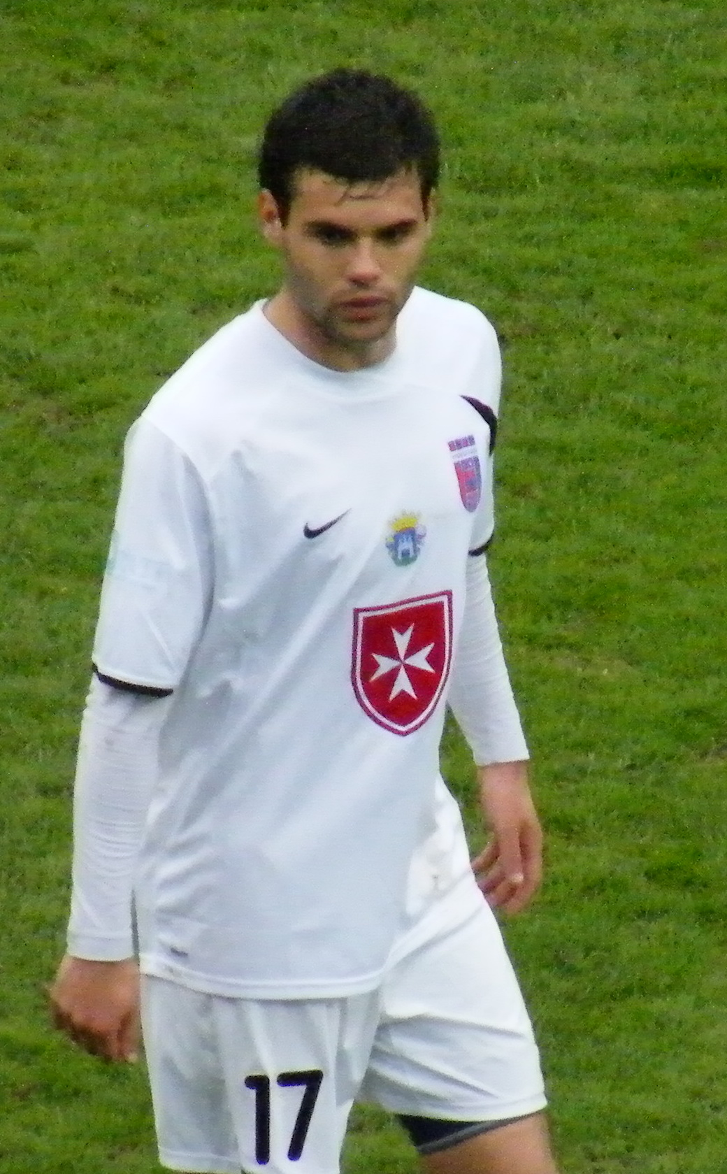 Nemanja Nikolić Serbian football player